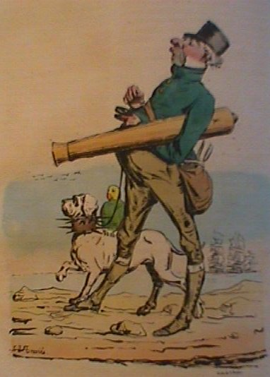 Photography